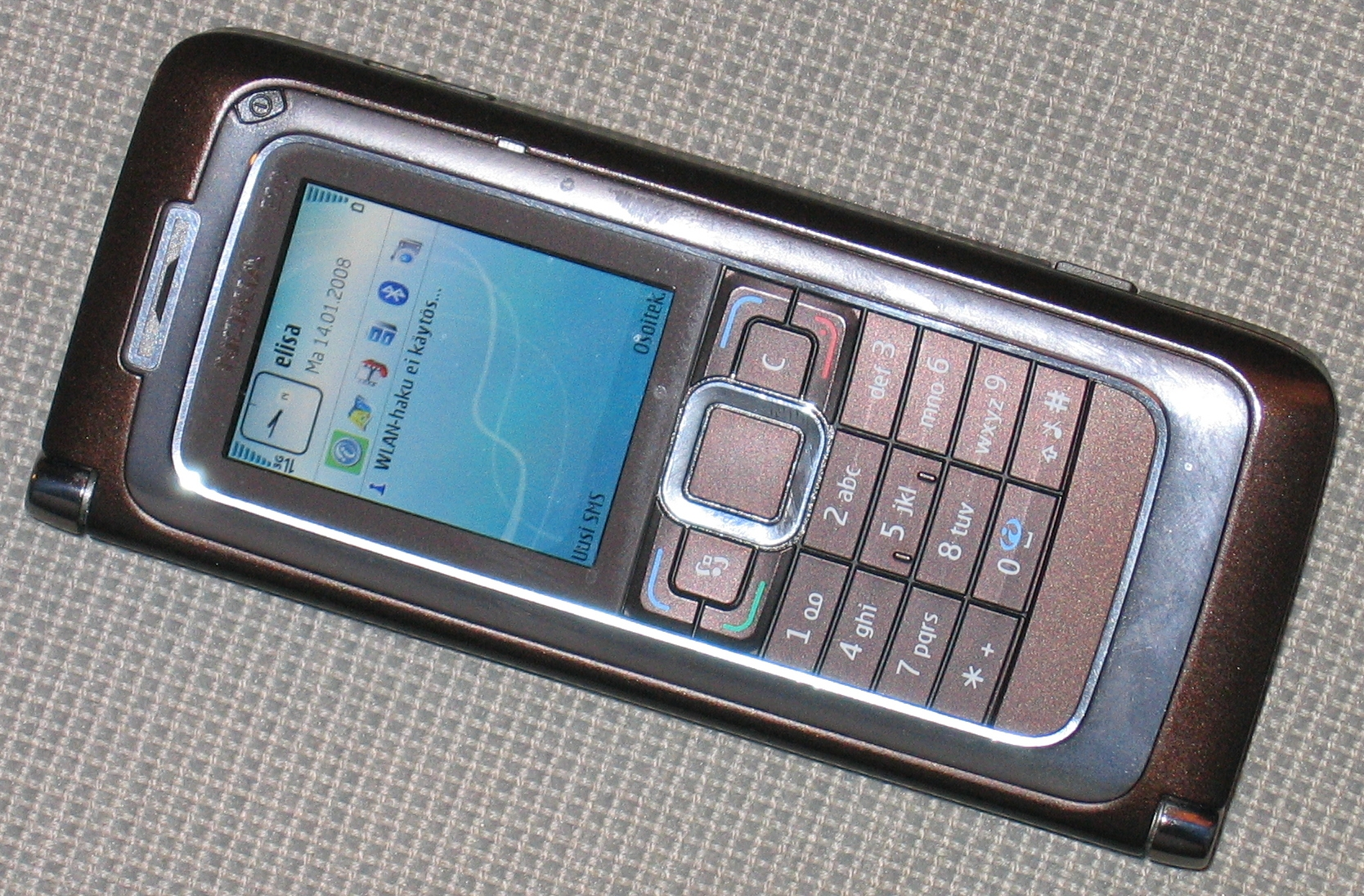 Nokia E90 phone xcover